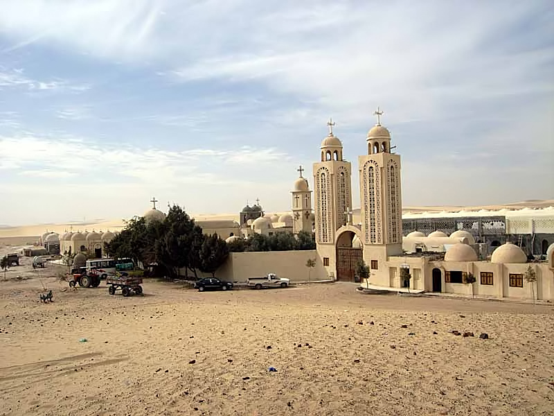 New monastery buildings, east side, Deir Abu Fana, Middle Egypt